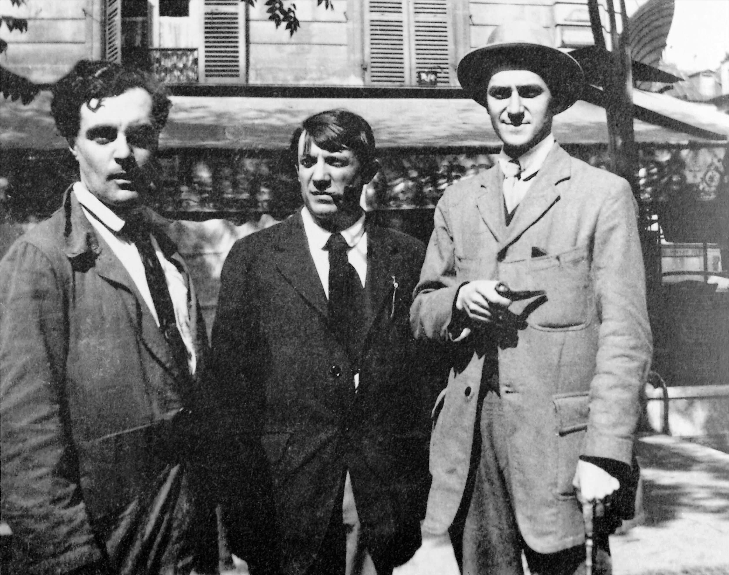 Modigliani, Picasso and André Salmon in front the Café de la Rotonde, Paris. Image taken by Jean Cocteau in Montparnasse, Paris in 1916.